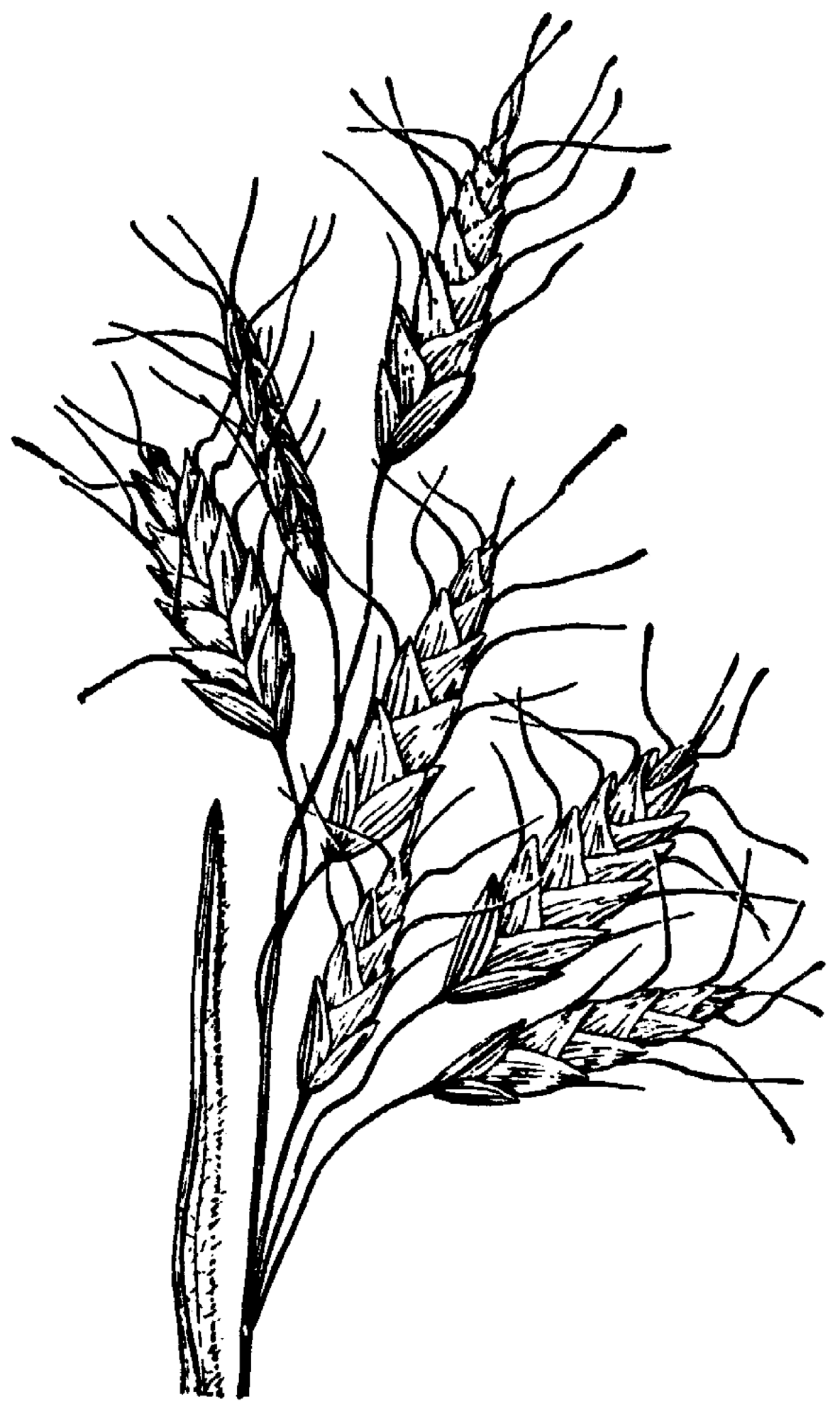 Bromus squarrosus L. (corn brome)